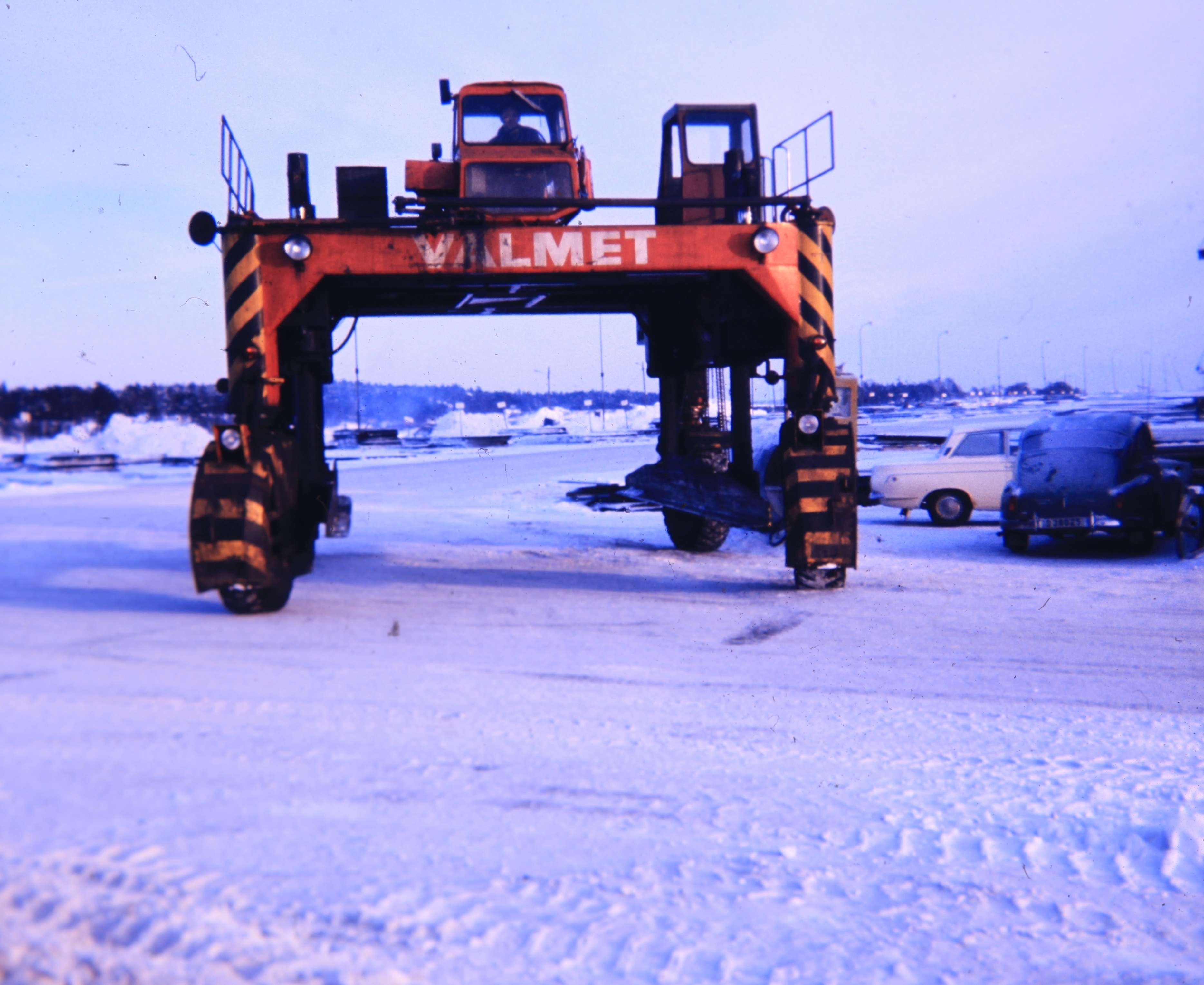 Valmet straddle truck in Oxelösund, used by SSAB Oxelösund.